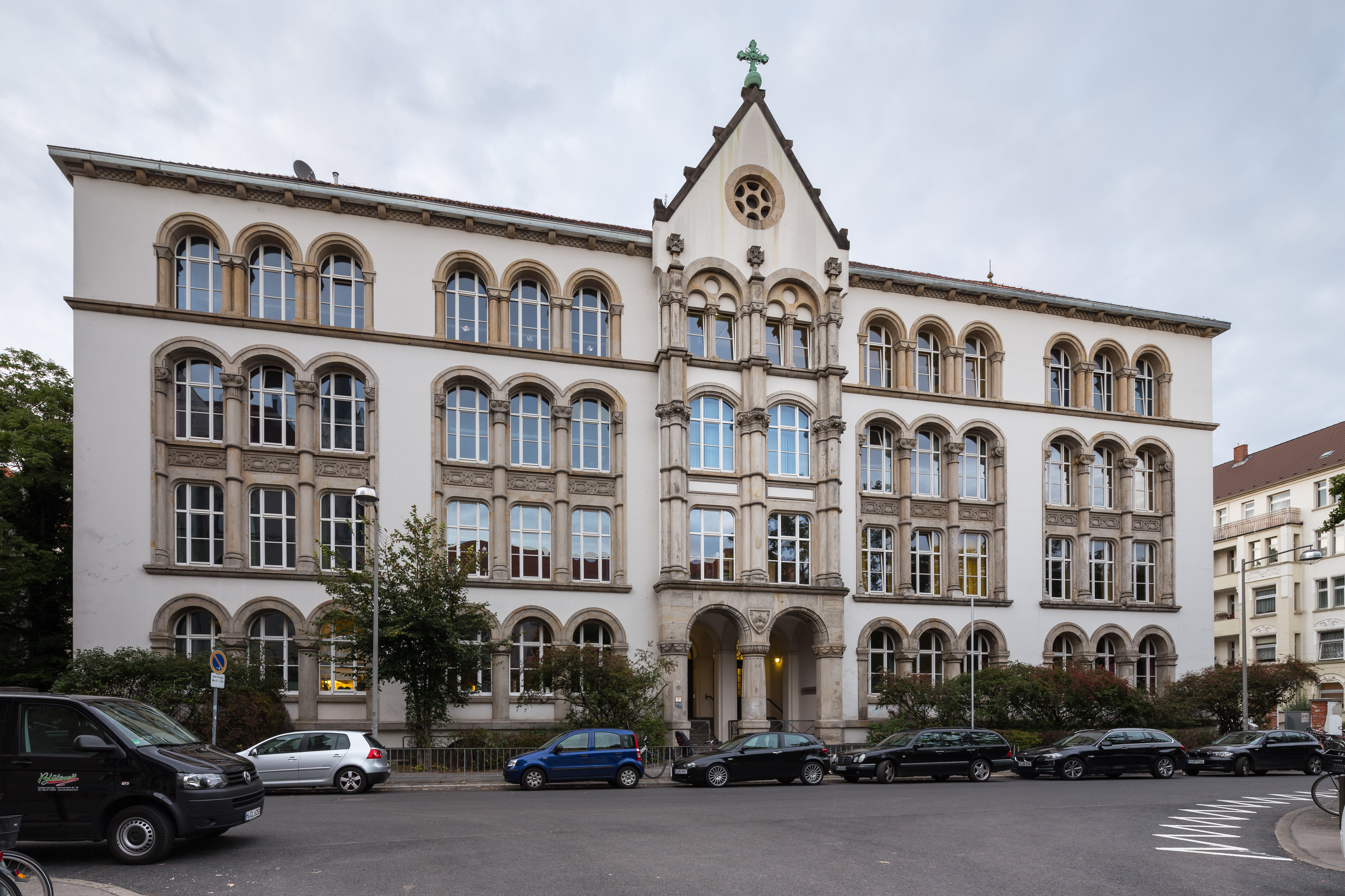 Bonifatiusschule school located at Bonifatiusplatz square in List quarter of Hannover, Germany.